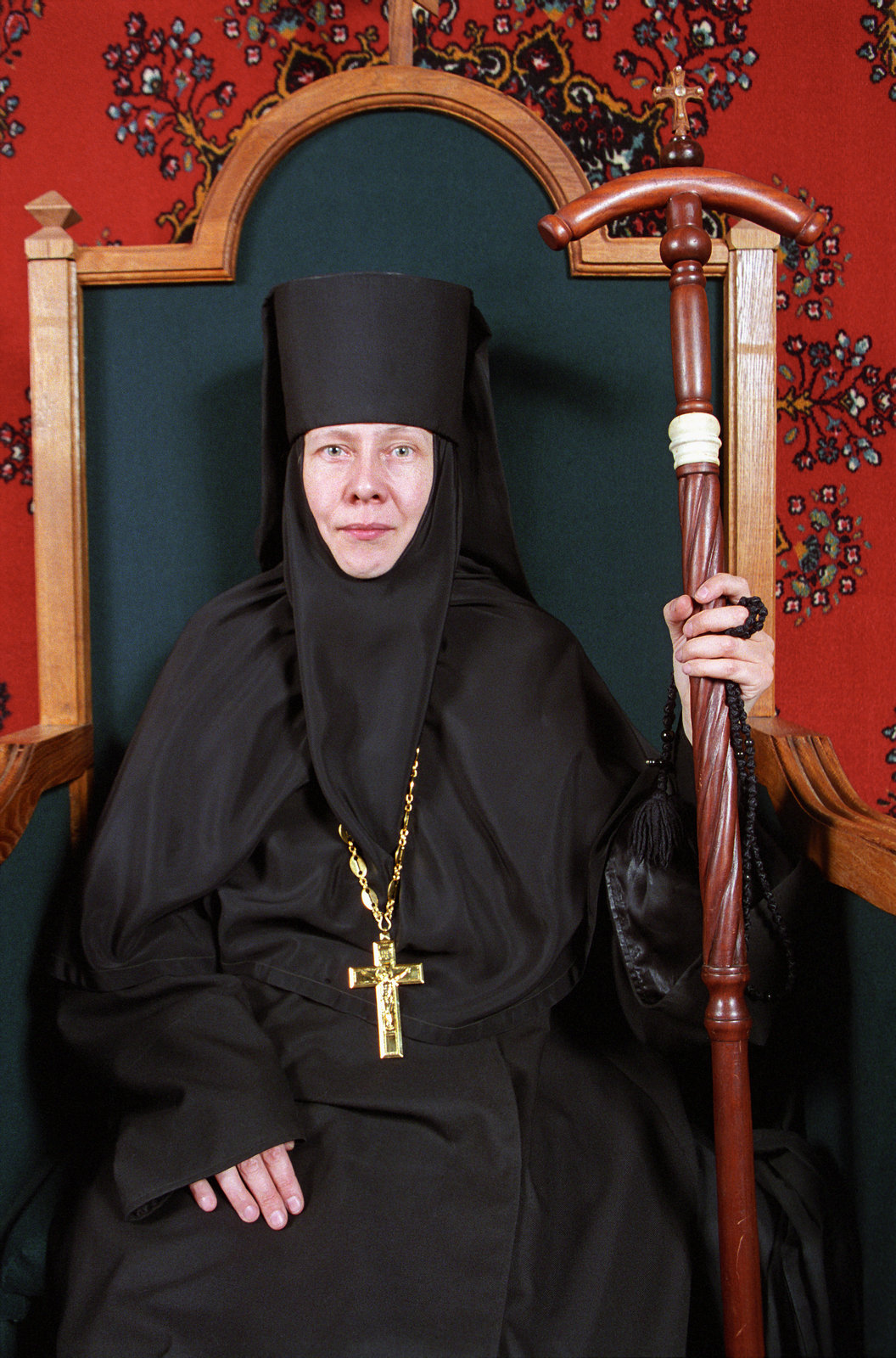 Abbess Eustolia (Olga Afonina) — prioress of the St. Nicholas convent in Pereslavl-Zalessky.